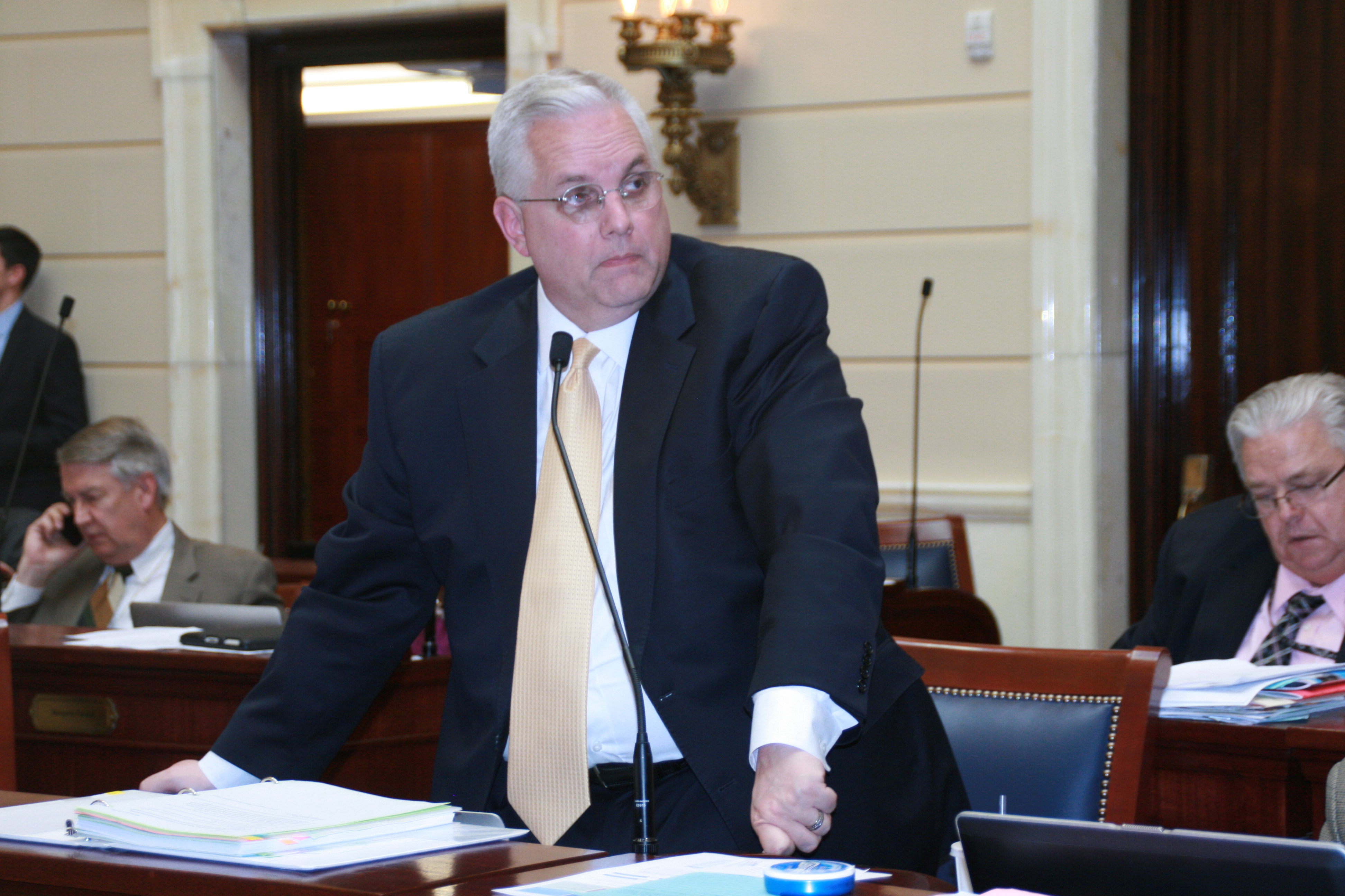 Senator Stuart Reid